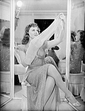 Paulette Goddard, American actress, illustrating the new fashion trend of having her hose blend in color with her evening dress. The dress she wears is gold bugle beads, designed by the famous Hollywood designed, Edith Head. Her stockings are gold-colored sheer crepe lisle.